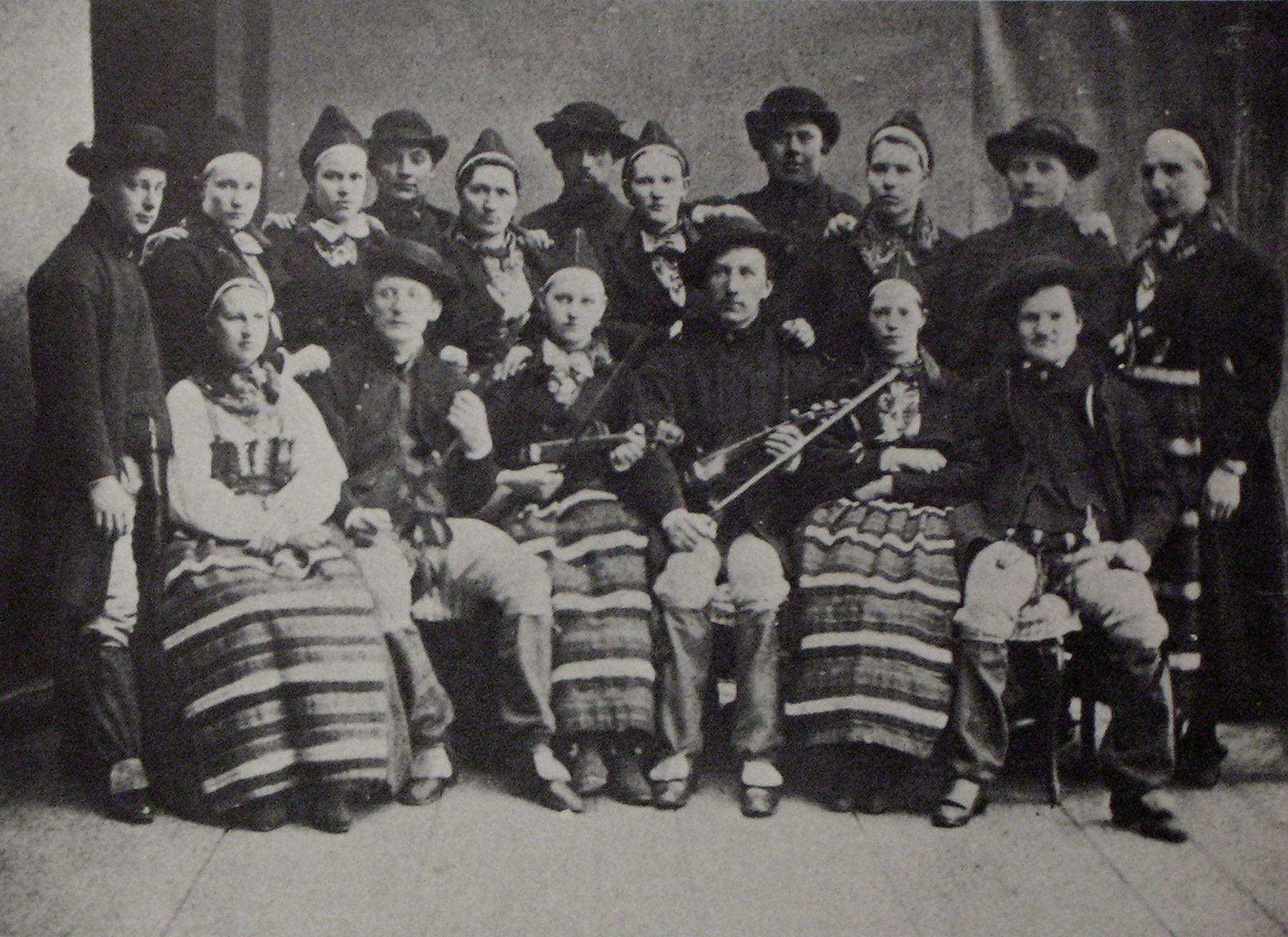 One of very few preserved photos related to the emergency help during the famine in Sweden 1867. The image shows a group of performers from the town of Gävle, trying to raise money for starving people in the town of Orsa.